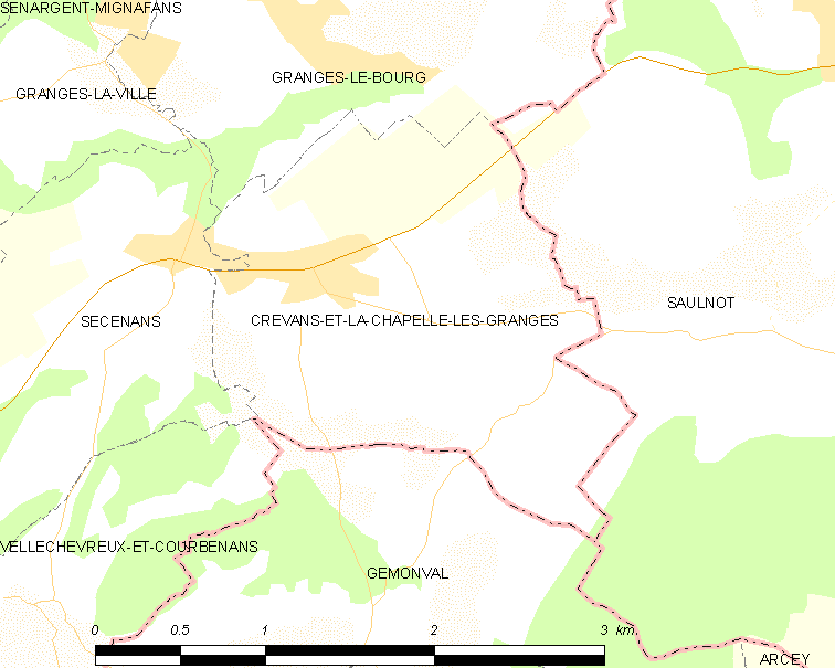 Map of French municipality